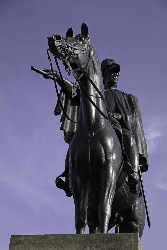 Mathew Wyatt's Memorial Statue of Wellington on Round Hill Aldershot